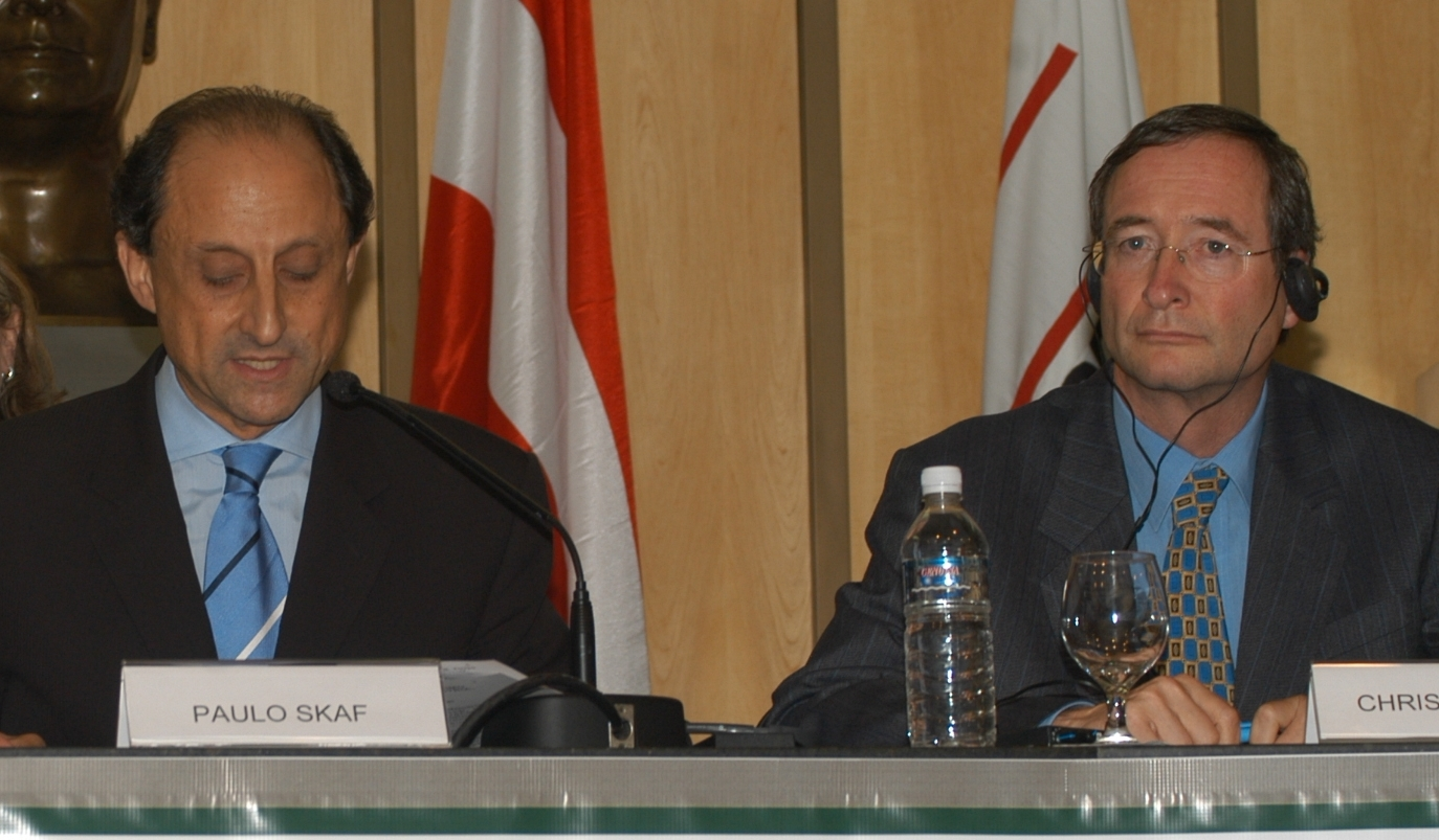 President of FIESP Paulo Skaf and President of WKÖ Christoph Leitl at Brasilo-Austrian business conference in São Paulo 2005